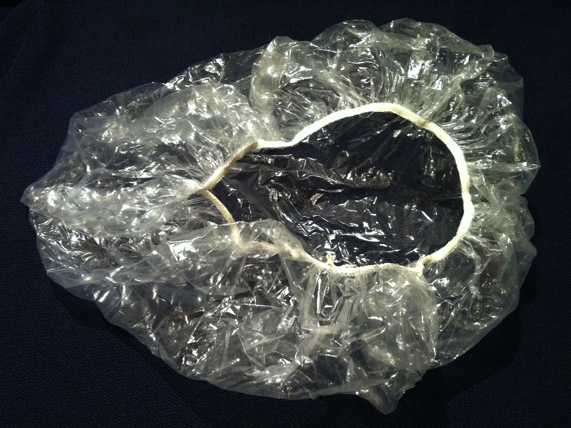 A disposable shower cap, provided by a hotel.